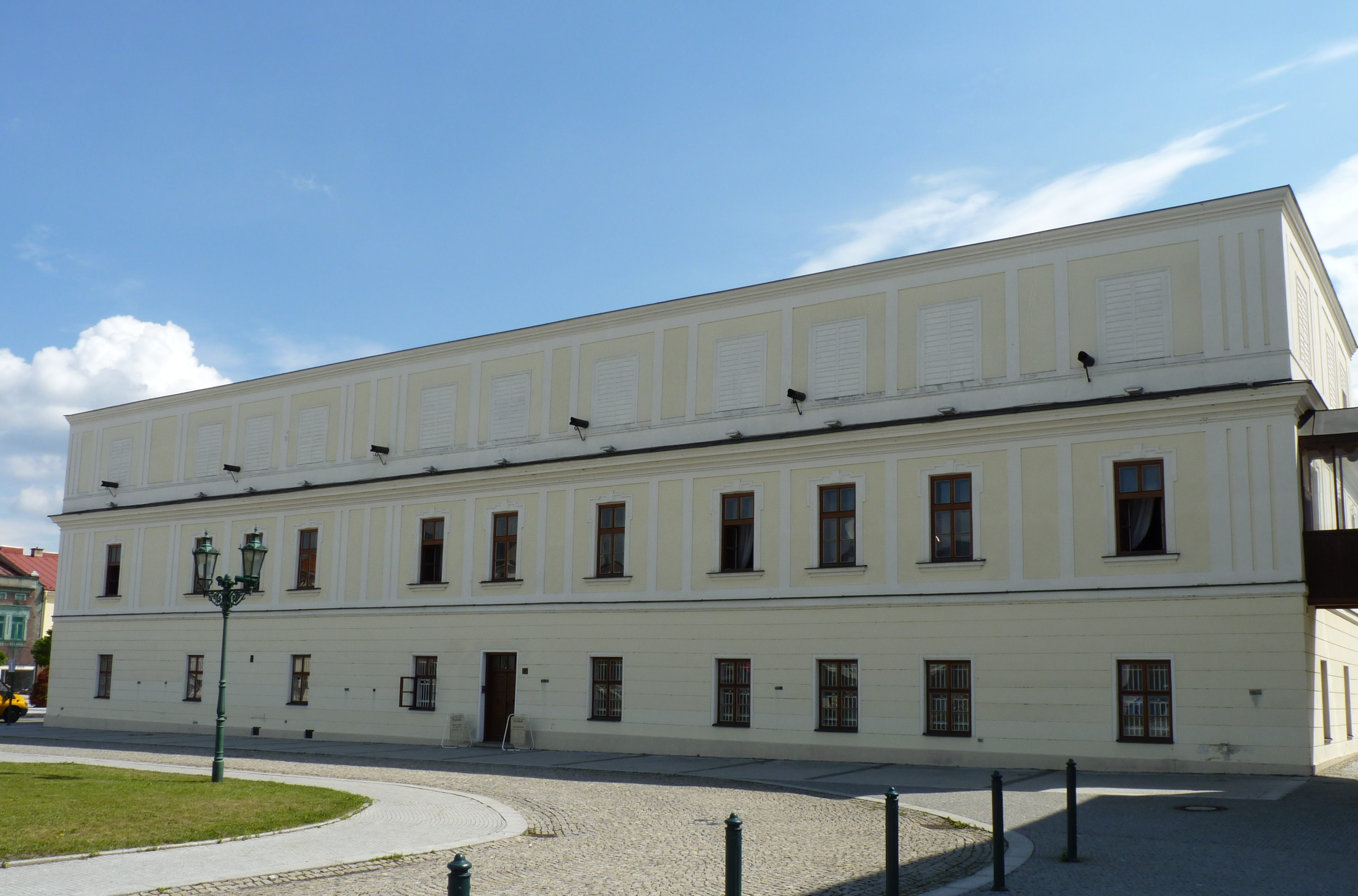 Lottyhaus in Fryštát. Karviná, Karviná District, Moravian-Silesian Region, Czech Republic